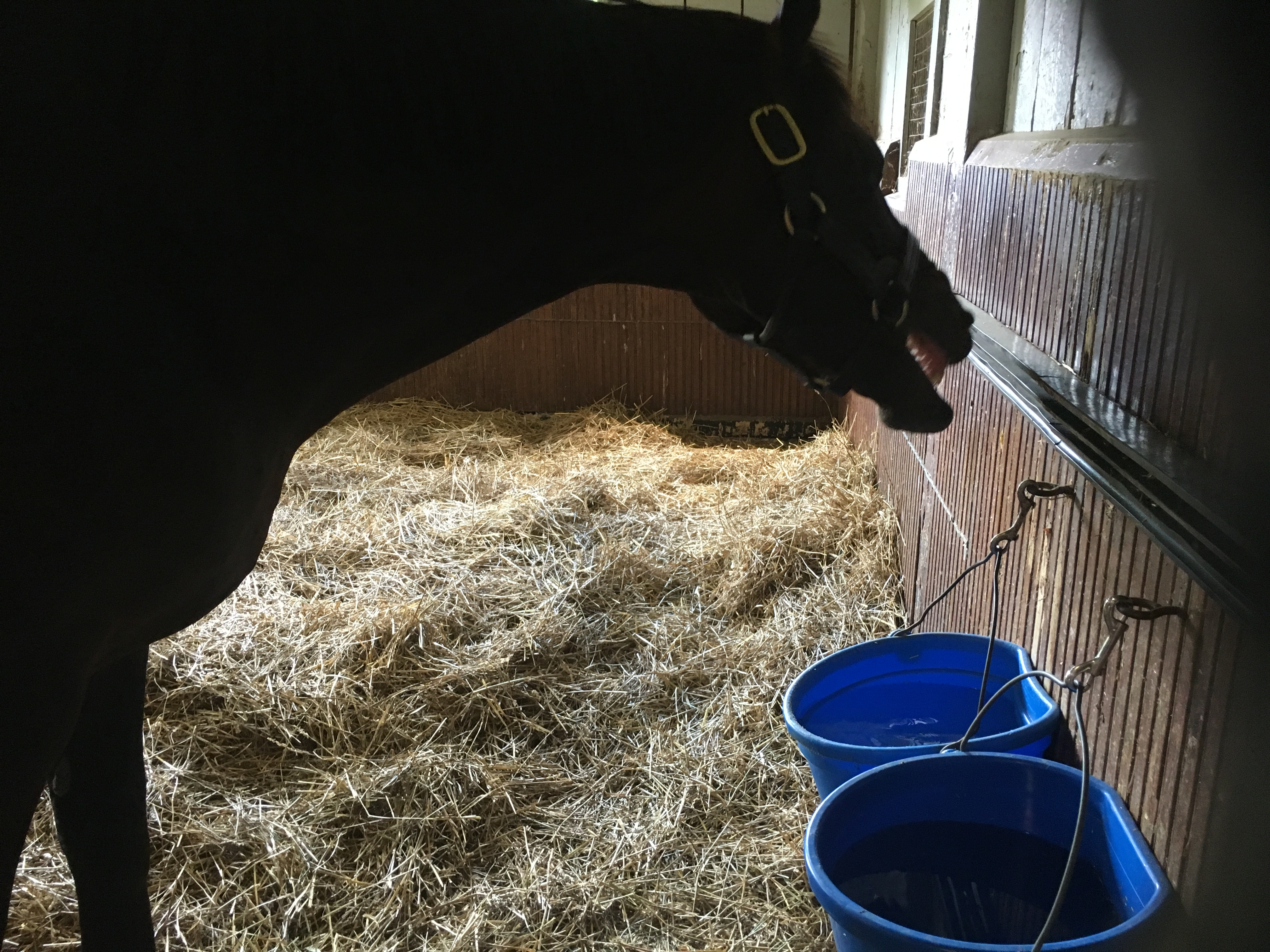 Go For Gin enjoying some fresh hay.